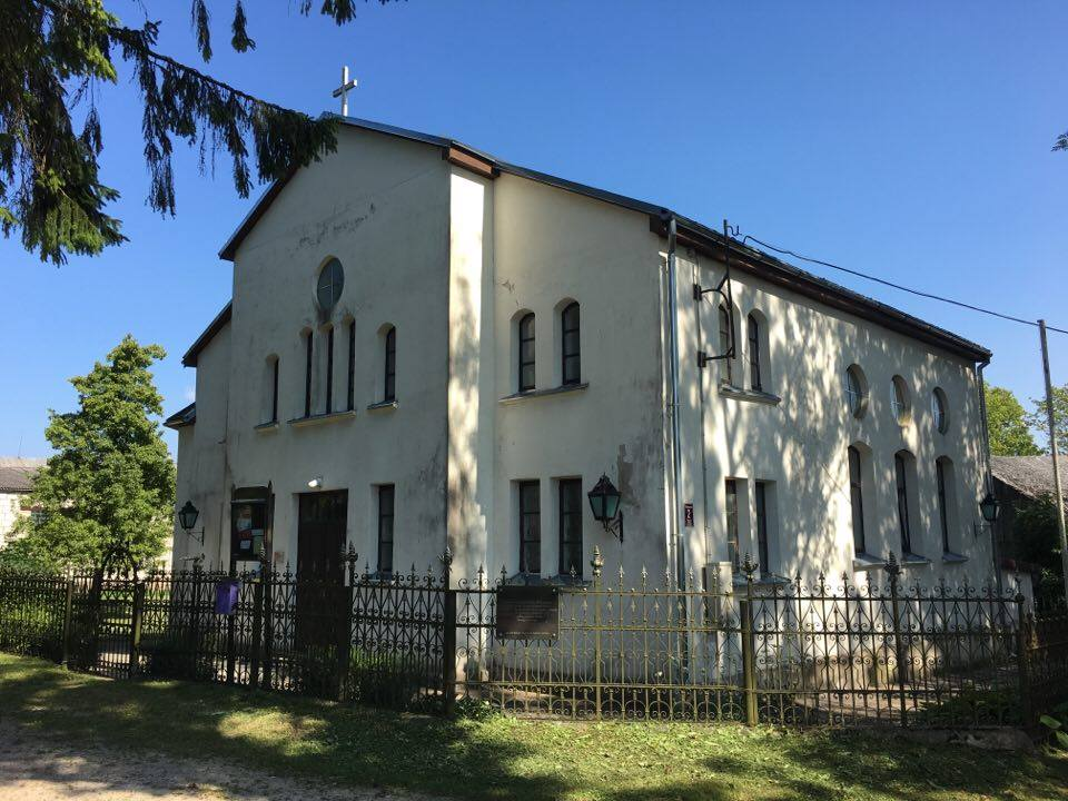 Catholic church in Vaiņode